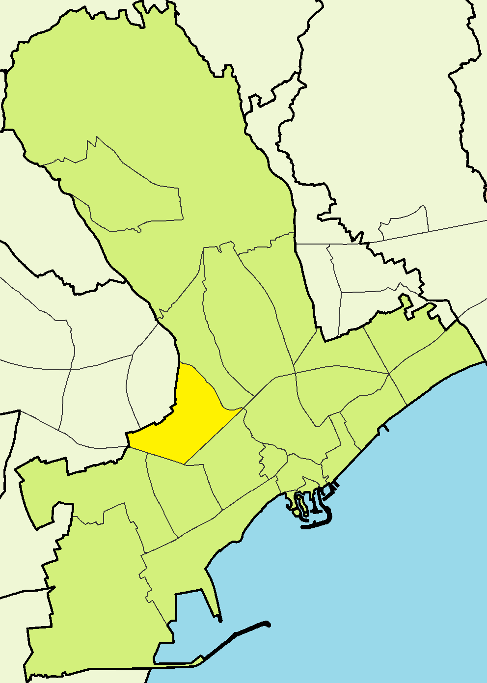 Apostolos Andreas in Limassol Municipality